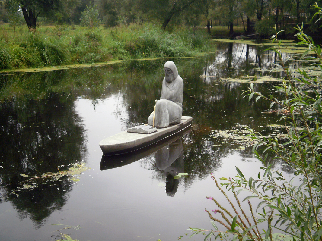 The monument to Elizeusz Pleteniecki at the historical and cultural site "Radomysl Castle", 2009